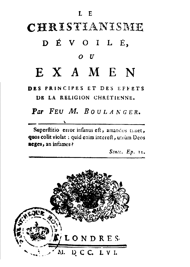 Title page of Baron d’Holbach: Le christianisme dévoilé, 1766. Published pseudonymously.